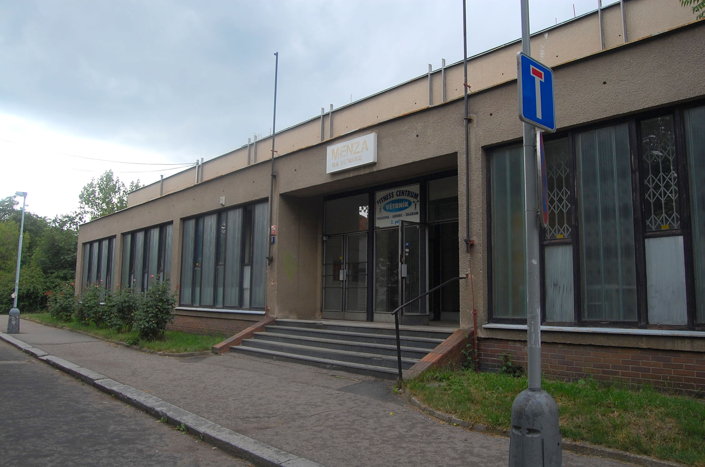 Defunct canteen of student dormitory "Na Vetrniku" in Prague, Czech Republic